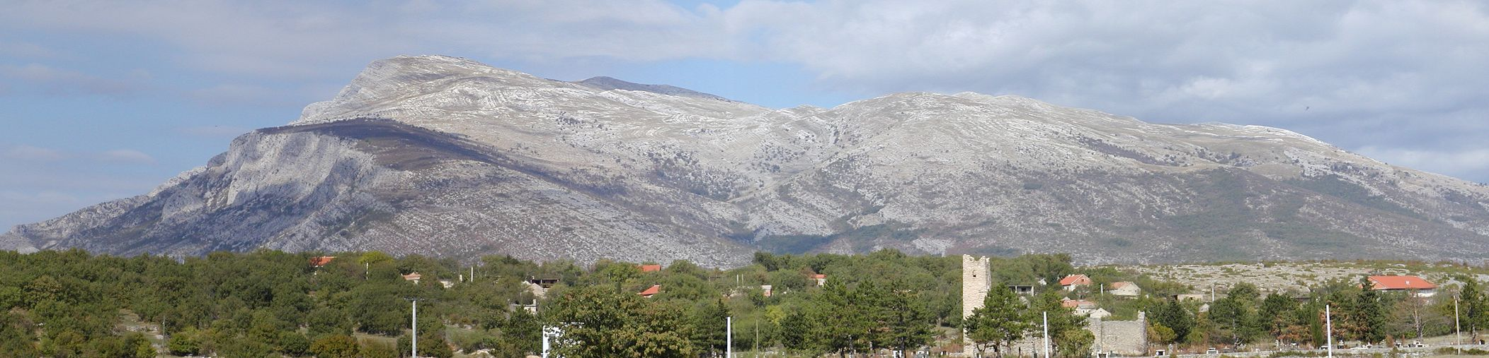 Northern part of Dinara, near source of Cetina river.